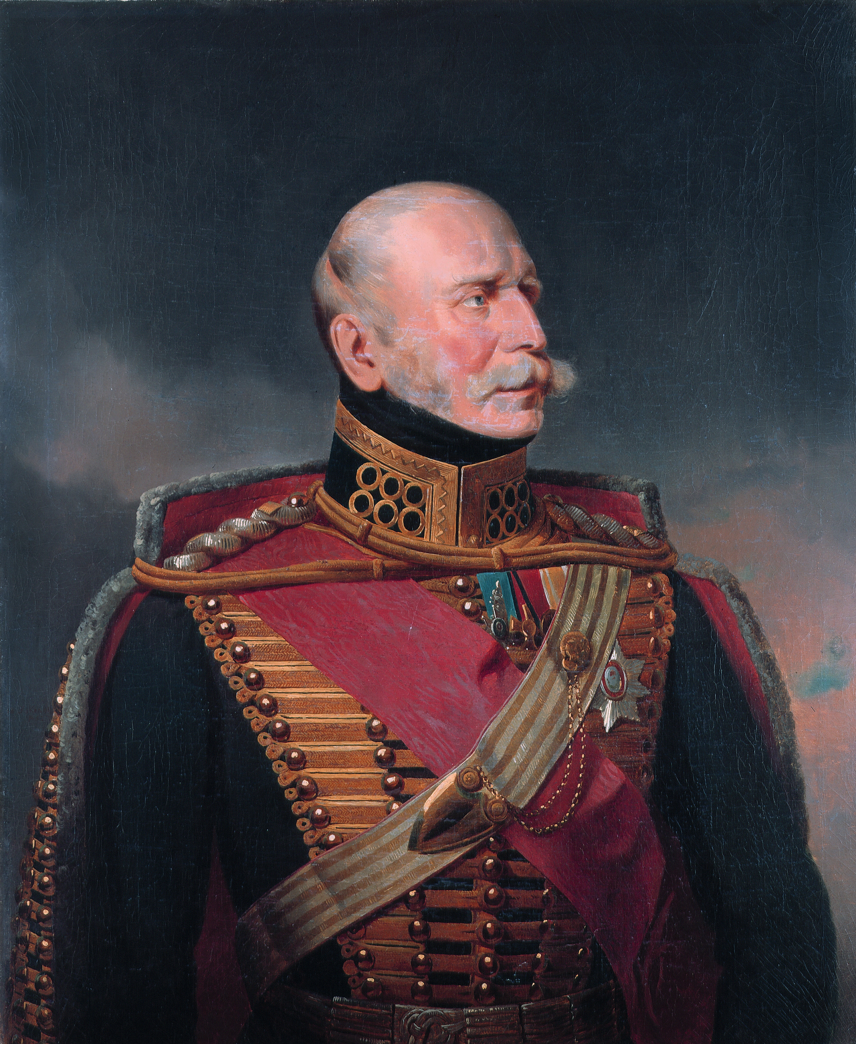 Ernst August von Hannover (1771-1851) after 1842